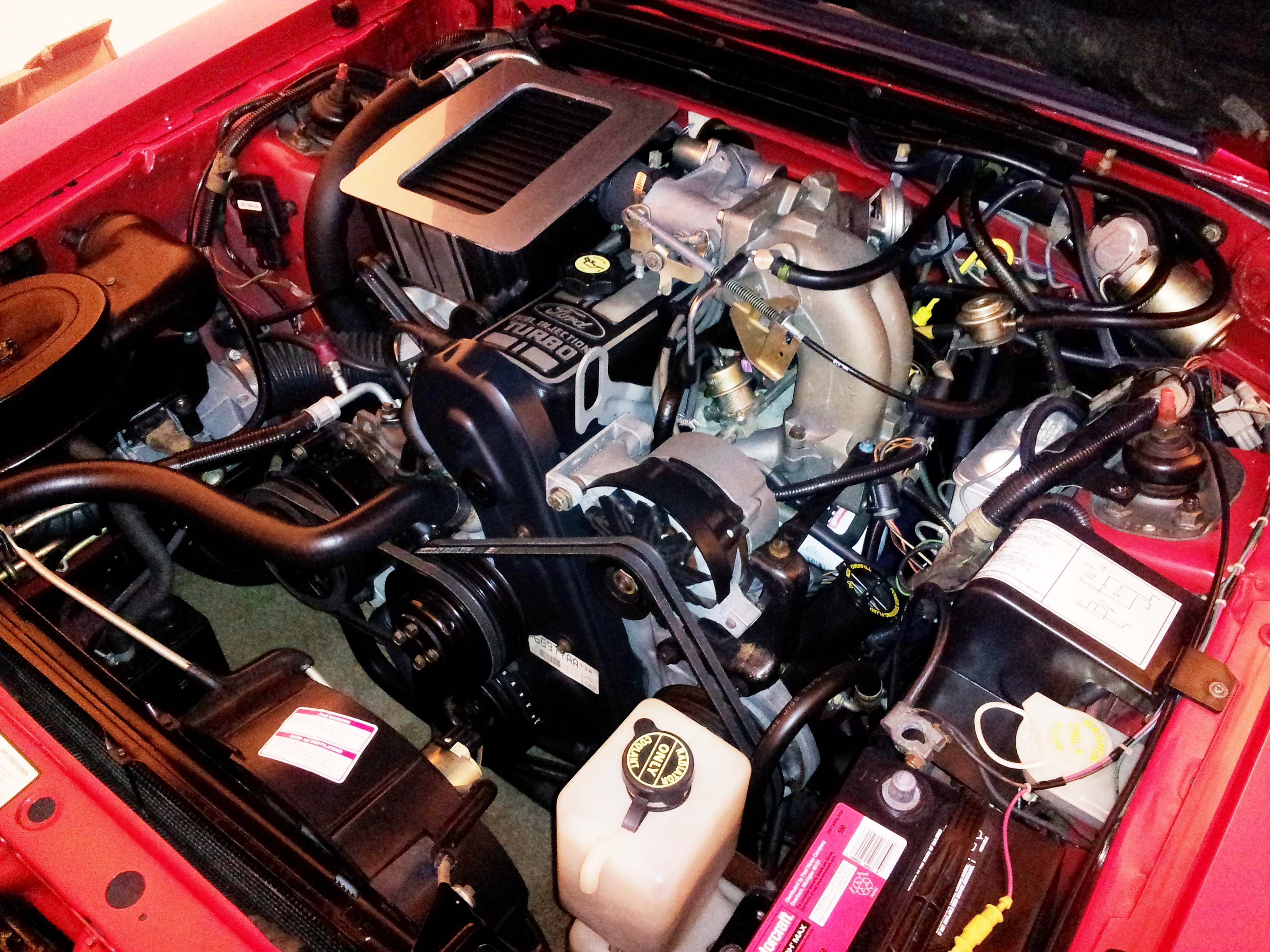 86 SVO engine bay